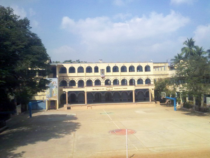 View of St. Joseph's School, Chengalpattu from the enterance